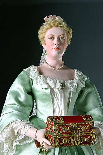 Historical figure of Sarah Churchill, Duchess of Marlborough